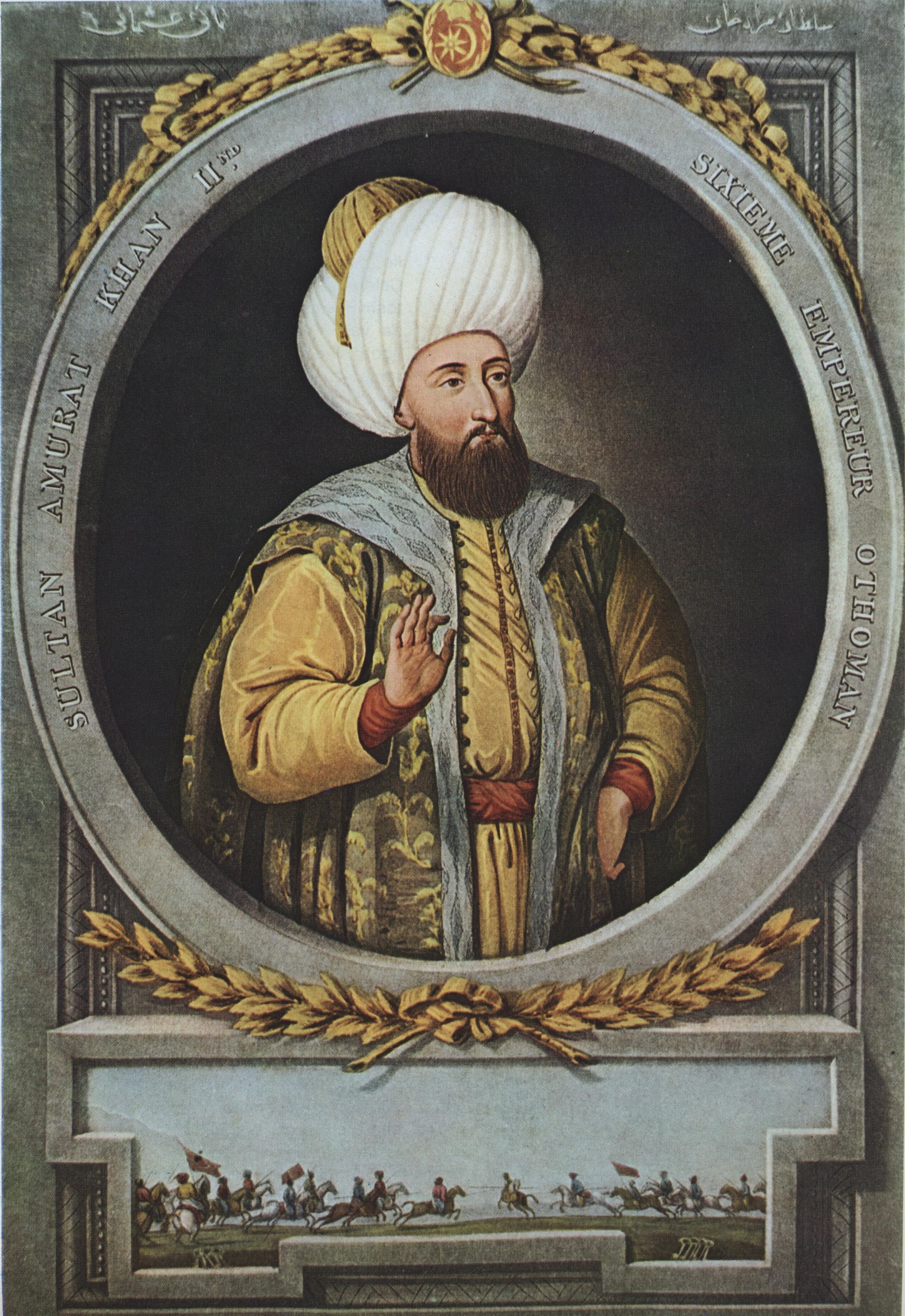 Murat II